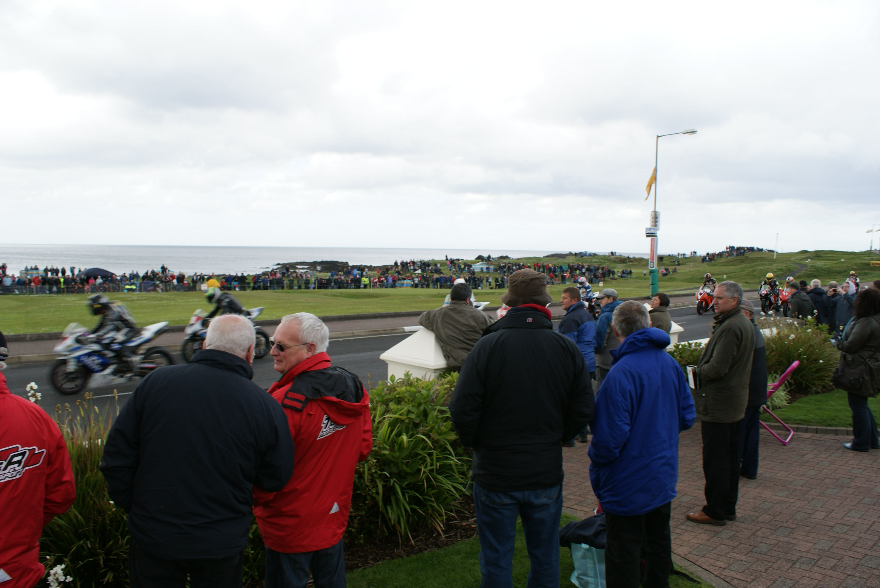 Spectators watching the 2009 North West 200